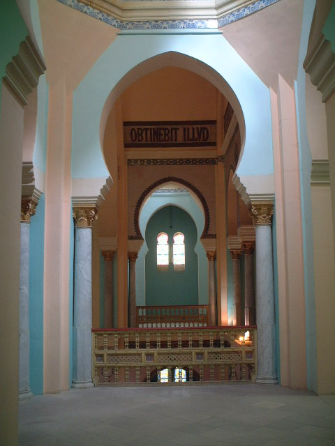 Inside the Cathedral Saint-Louis of Carthage, Carthage, Tunisia.